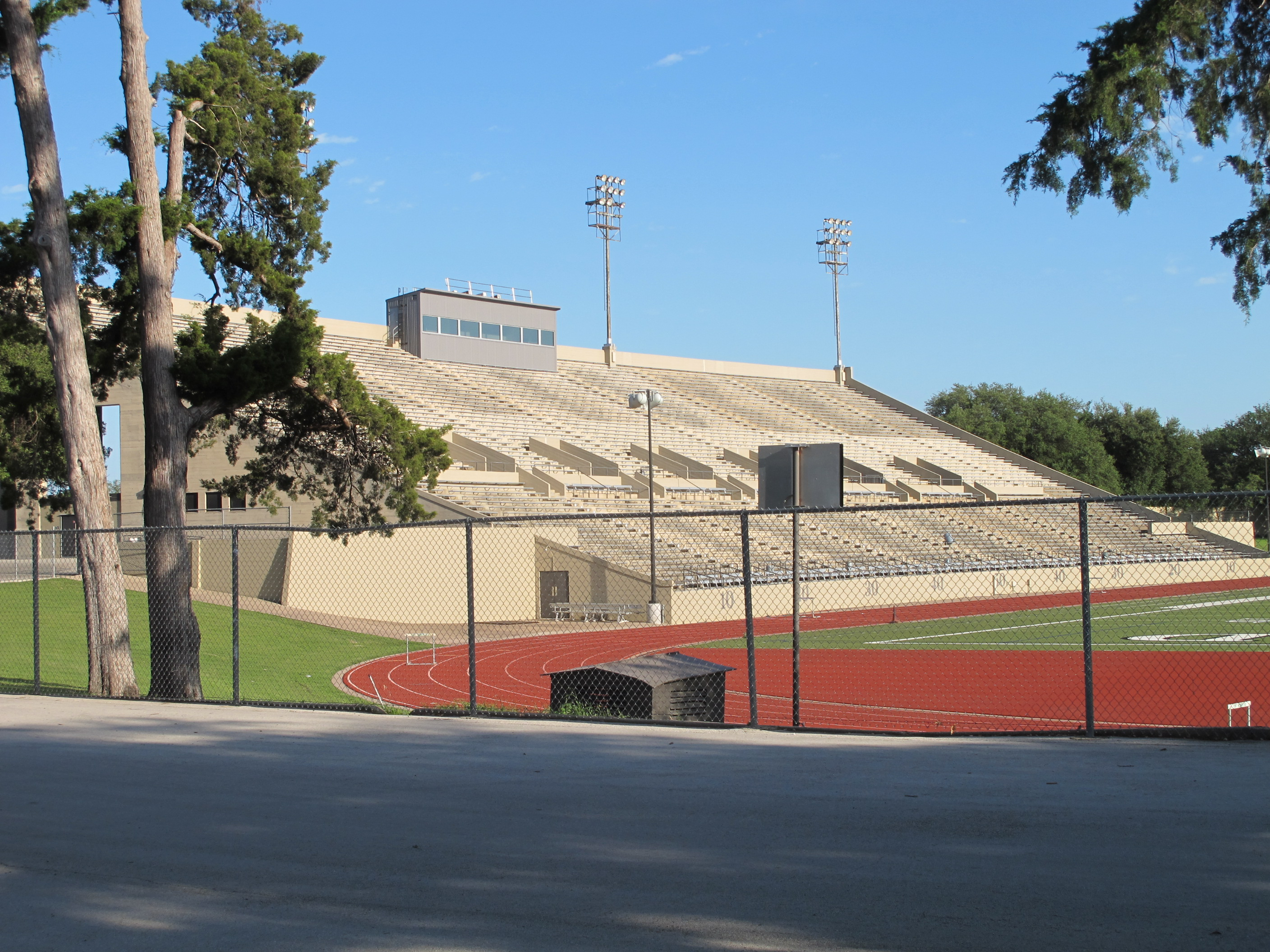 Waco's Farrington Field Grandstand